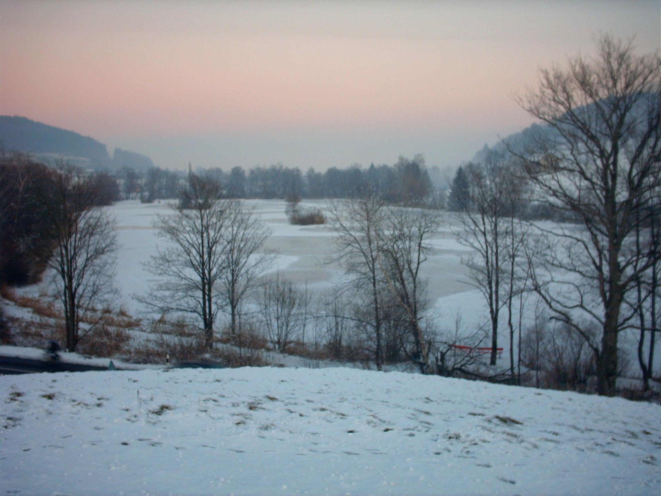 Lake Bettenauer Weiher near Oberuzwil in Switzerland